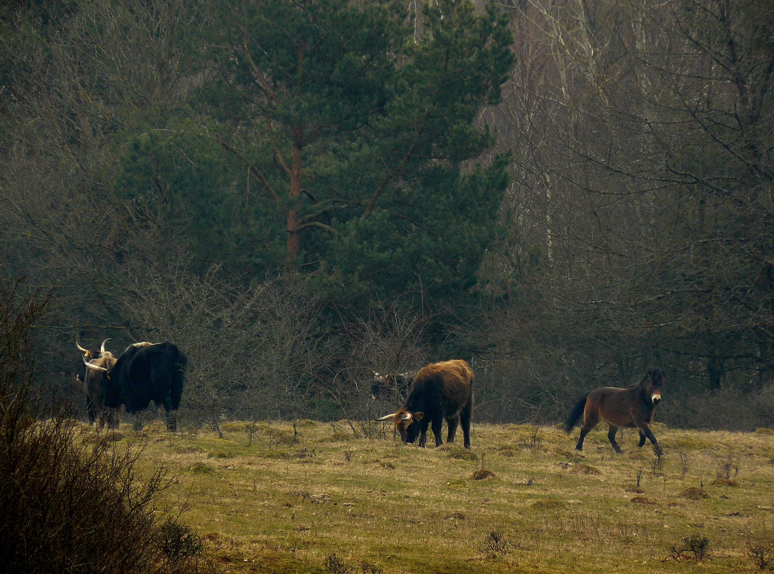 Heck cattle and Exmoor pony in a large enclosure, Auerbach Bavaria